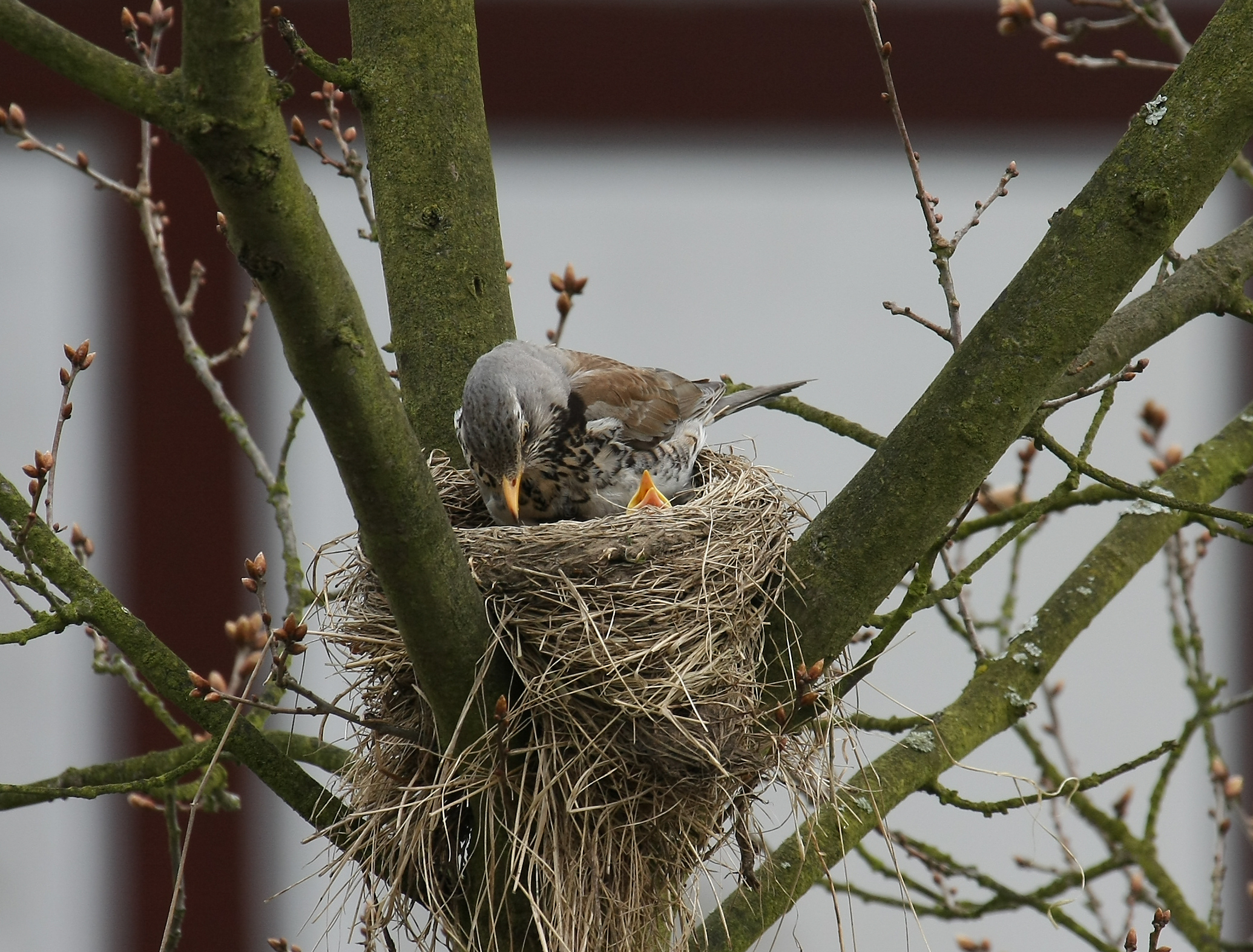 Fieldfare